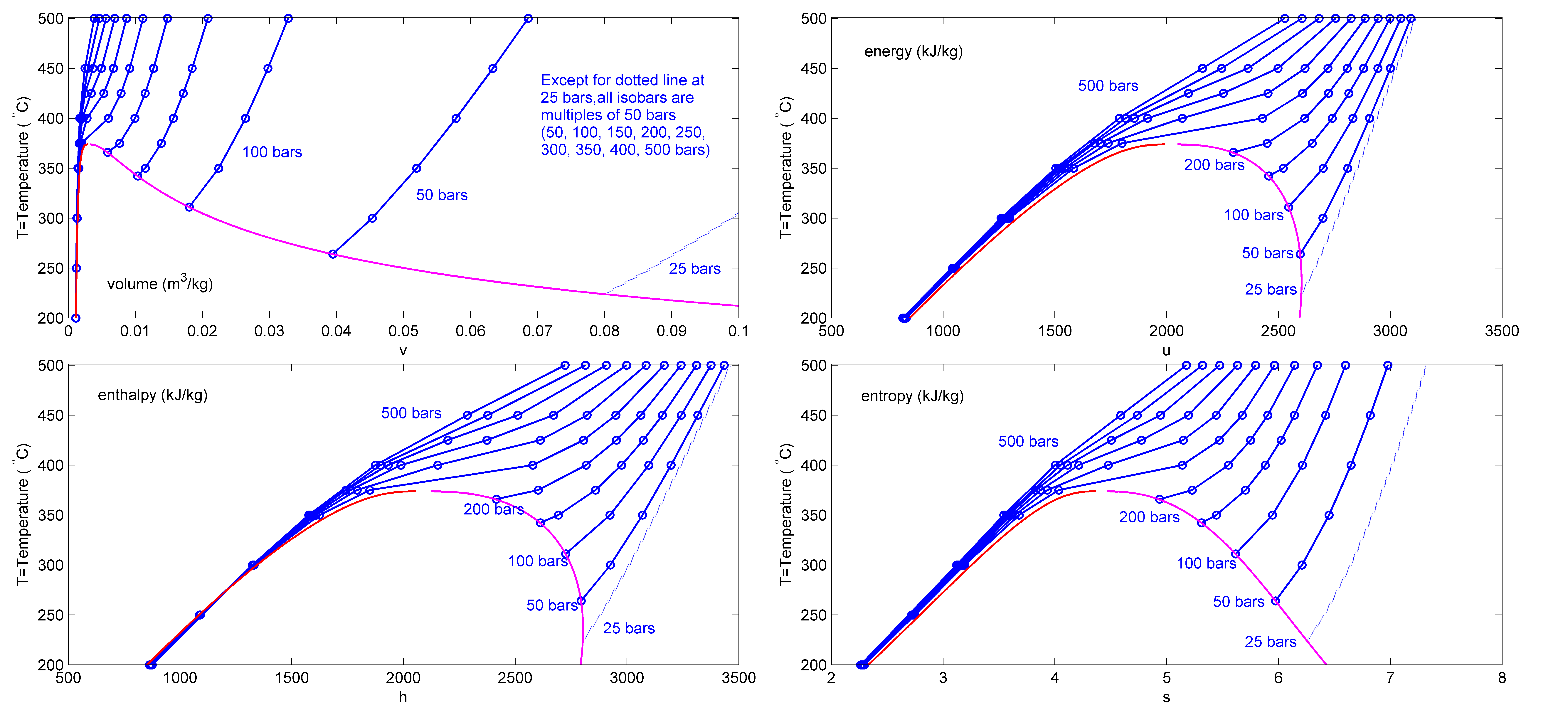 Volume, energy, enthalpy, and entropy versus temperature are shown for the "small" 2 page steam table. Except for the dotted line at 50 bars, the pressure contours are increments of 50 bars: 50, 100, 150...to 500 bars.